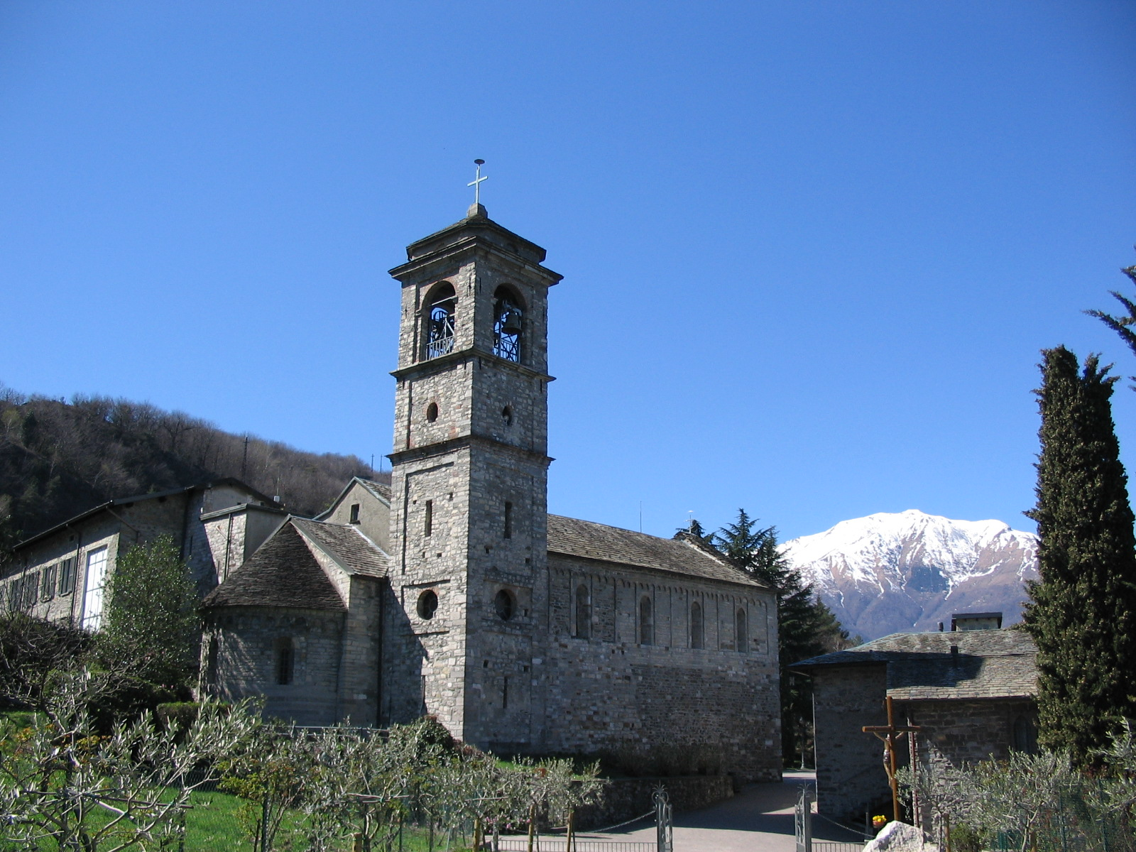 Priorato di Piona. Picture by: Giorces.